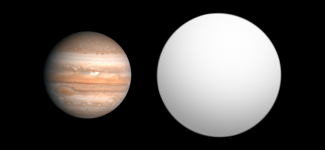 Comparison of best-fit size of the exoplanet Kepler-8 b with the Solar System planet Jupiter, as reported in the Extrasolar Planets Encyclopaedia[1] as of 2010-10-03. ↑ Extrasolar Planets Encyclopaedia (2010-09-30). Retrieved on 2010-10-03.